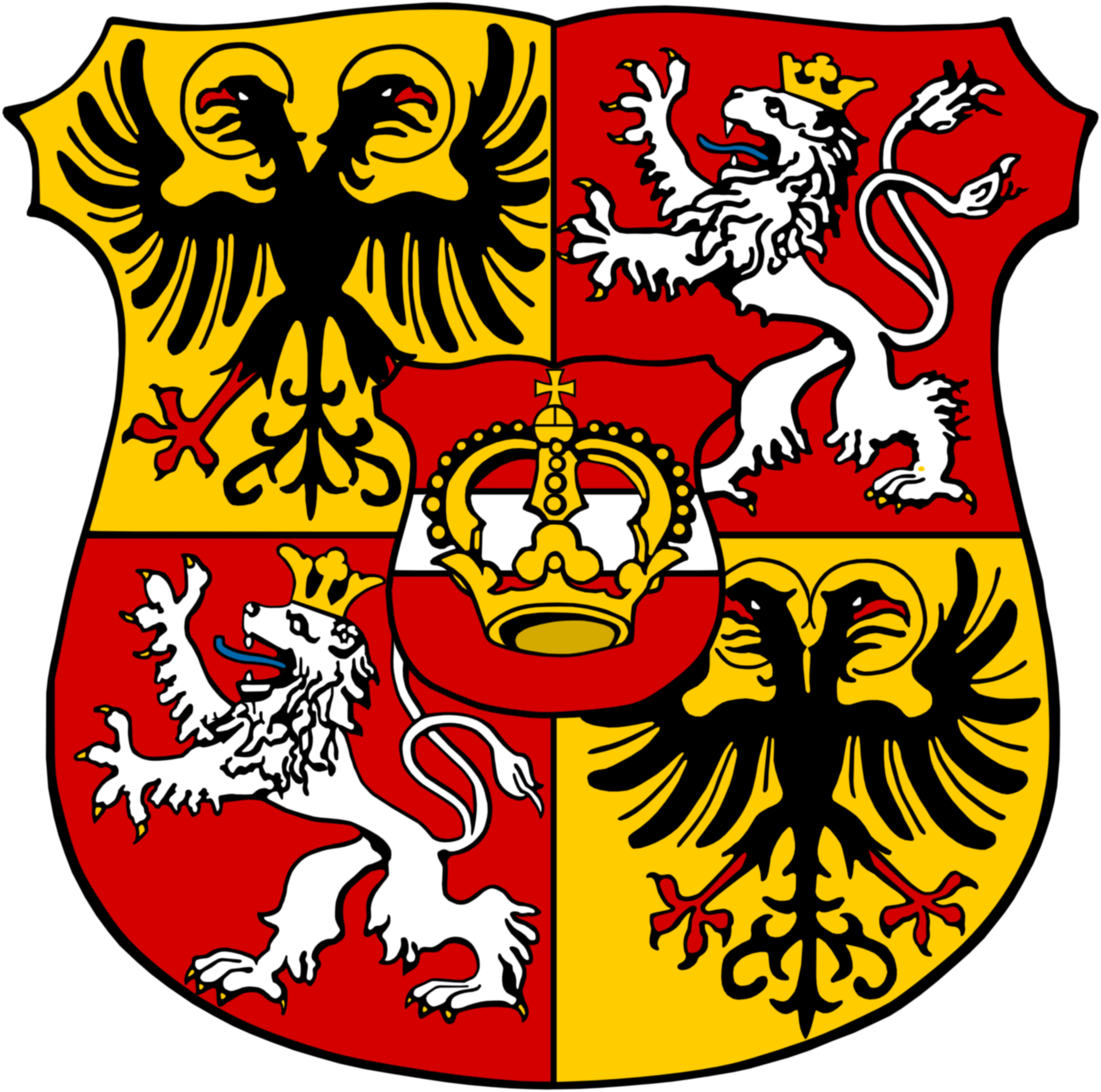 Historical Coat of Arms of Görlitz. Schläsch: Woappa derr Stoadt Gerltz vu 1536 bis 1945